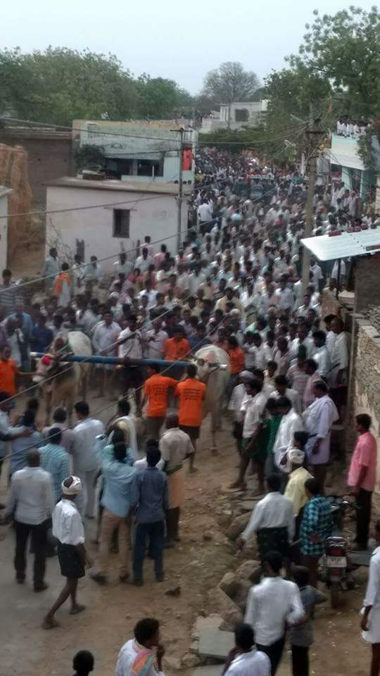 శ్రీరామనవమి ఉత్సవాల సందర్భంగా బండలాగుడు పోటీలు